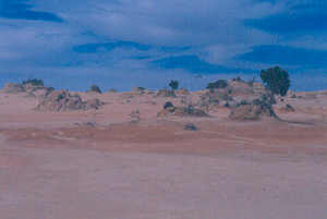 Dried-out Lake Mungo